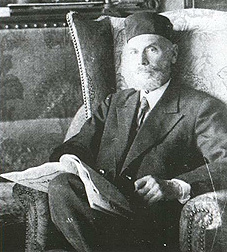 A. N. Beketov in Academic shapka.